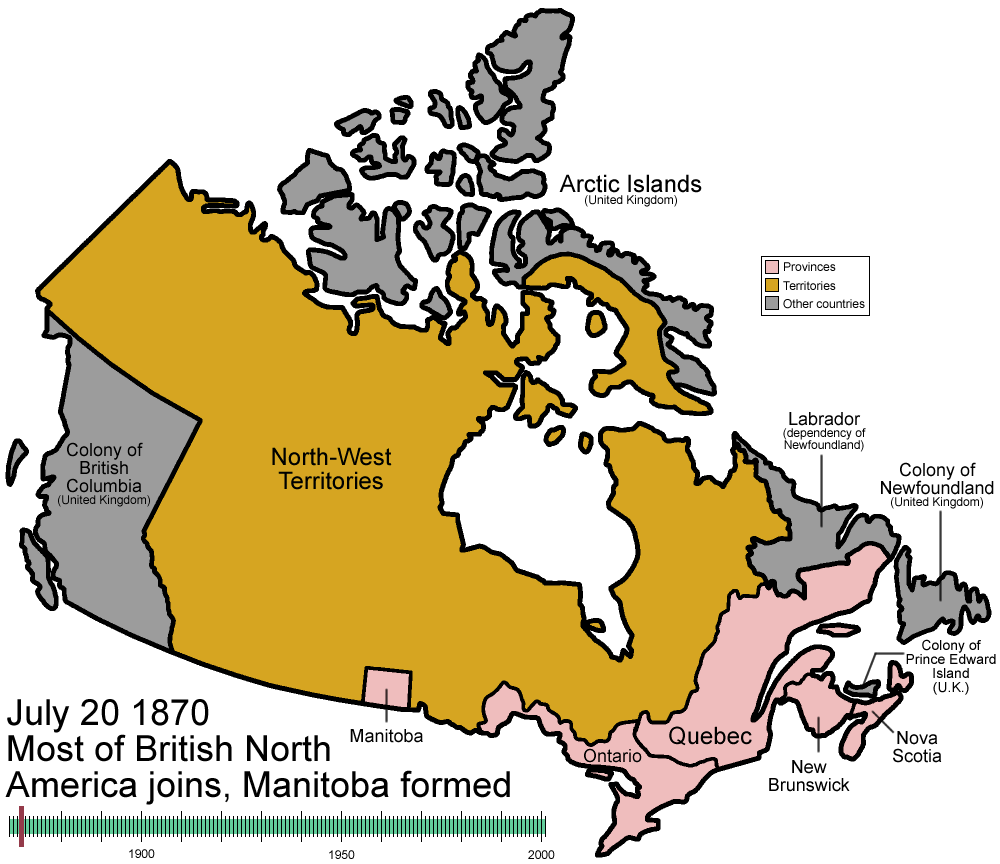 Single frame of Image:Canada provinces evolution.gif for thumbnail purposes.